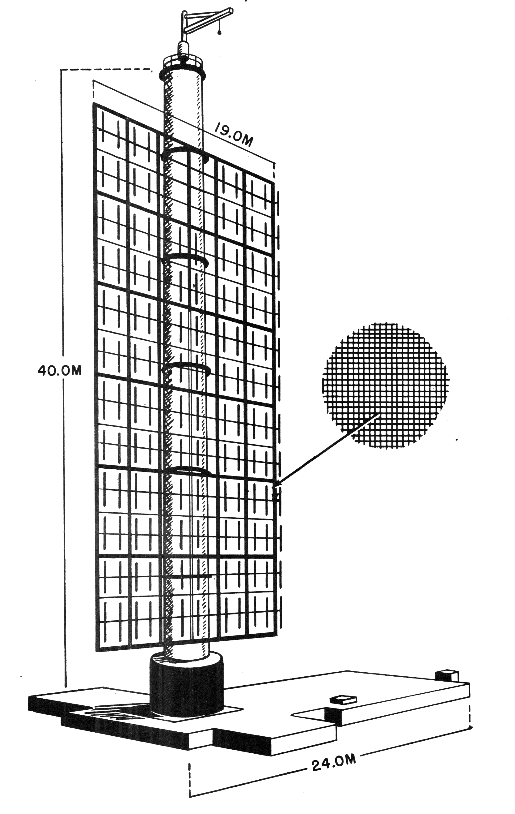 An illustration of a German World War II Wassermann "Cylinder Chimney" Radar from TM E 11-219 "Directory of German Radar Equipment".